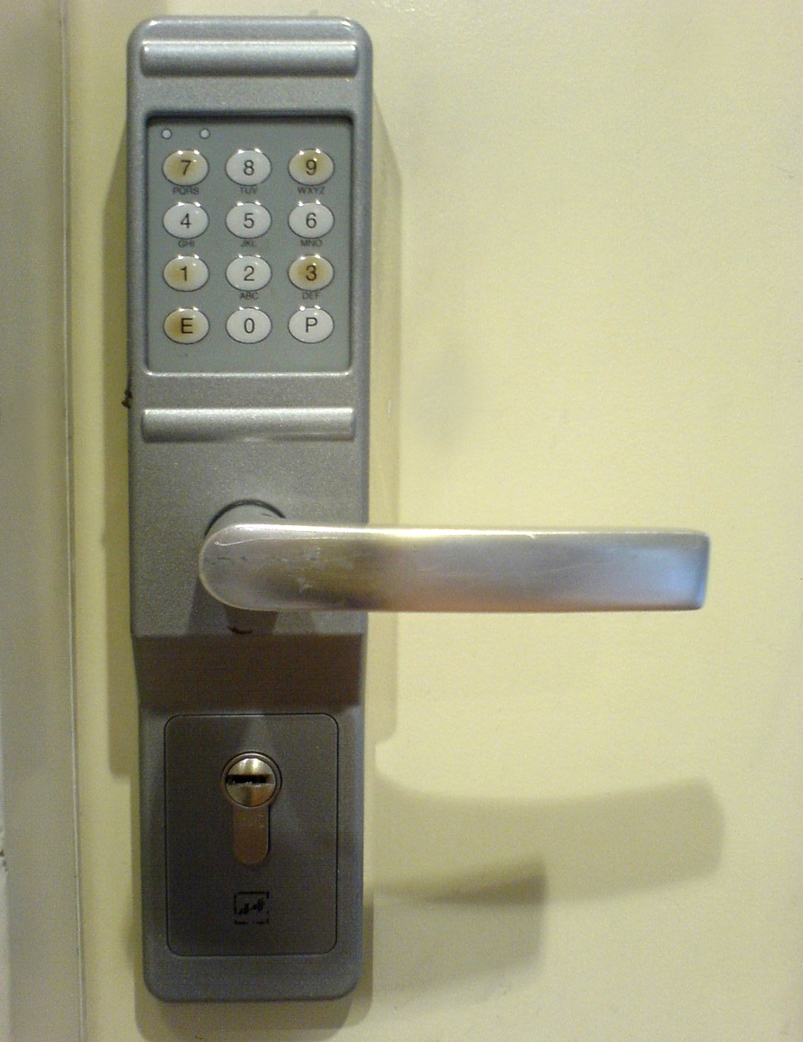 Electronic lock with number pad, manufacturer: ASSA ABLOY Sicherheitstechnik GmbH, Albstadt ("eff-eff"). Note the heavily used numbers and consider this as a great hint for unauthorized trials.